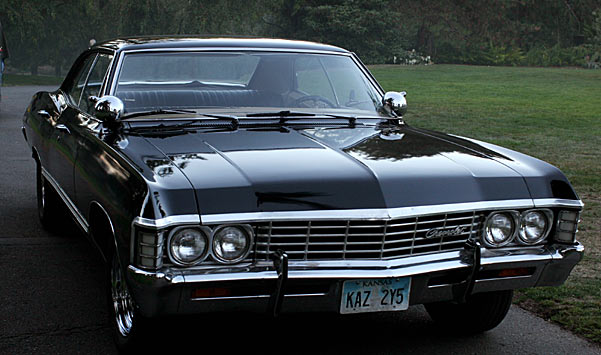 xD EN GRAN CARRO